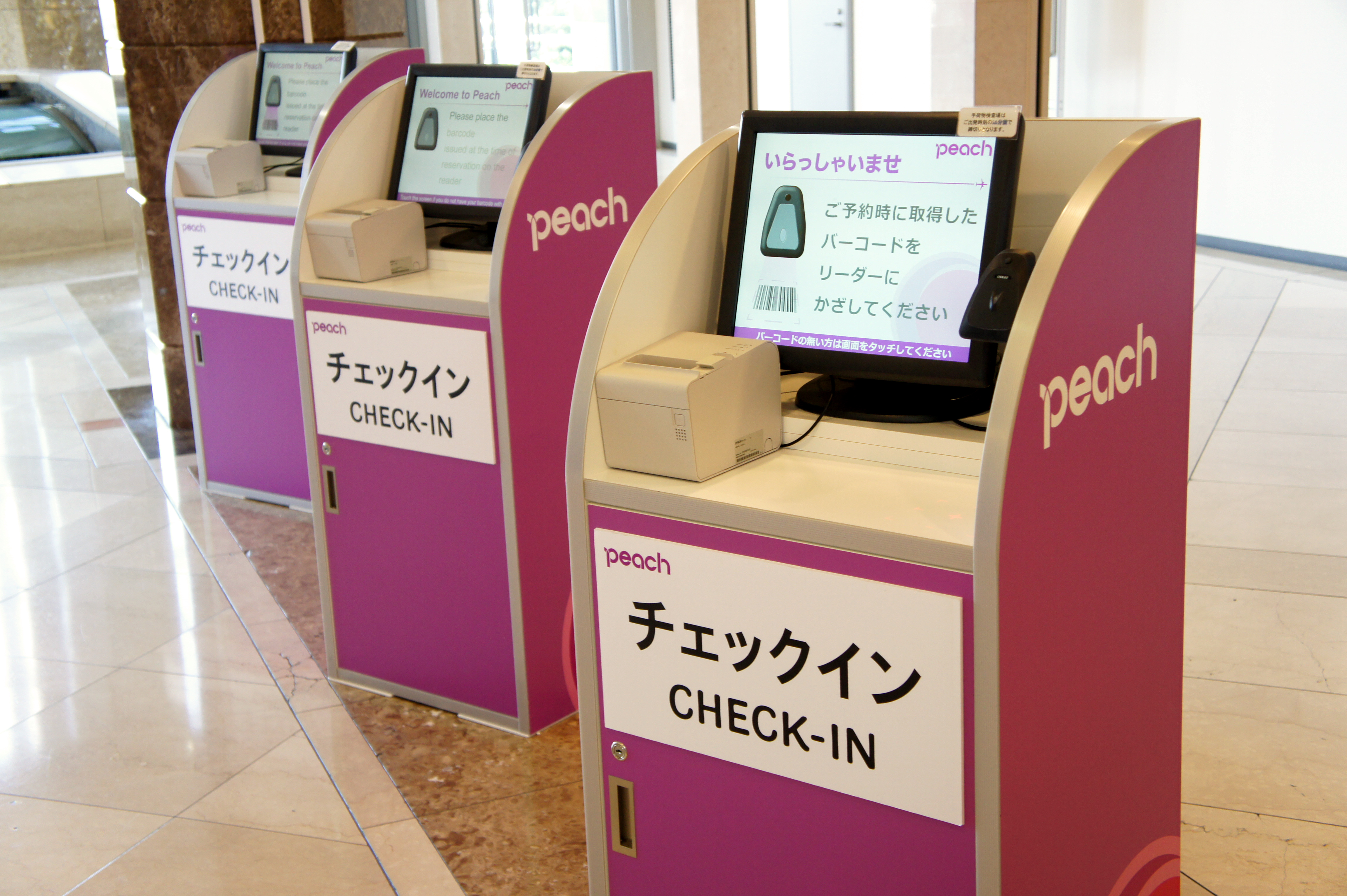 Peach Aviation Self Check-in Kiosk, 1 Senshukuko-kita Izumisano-City Osaka Japan.(Kansai International Airport Aeroplaza)